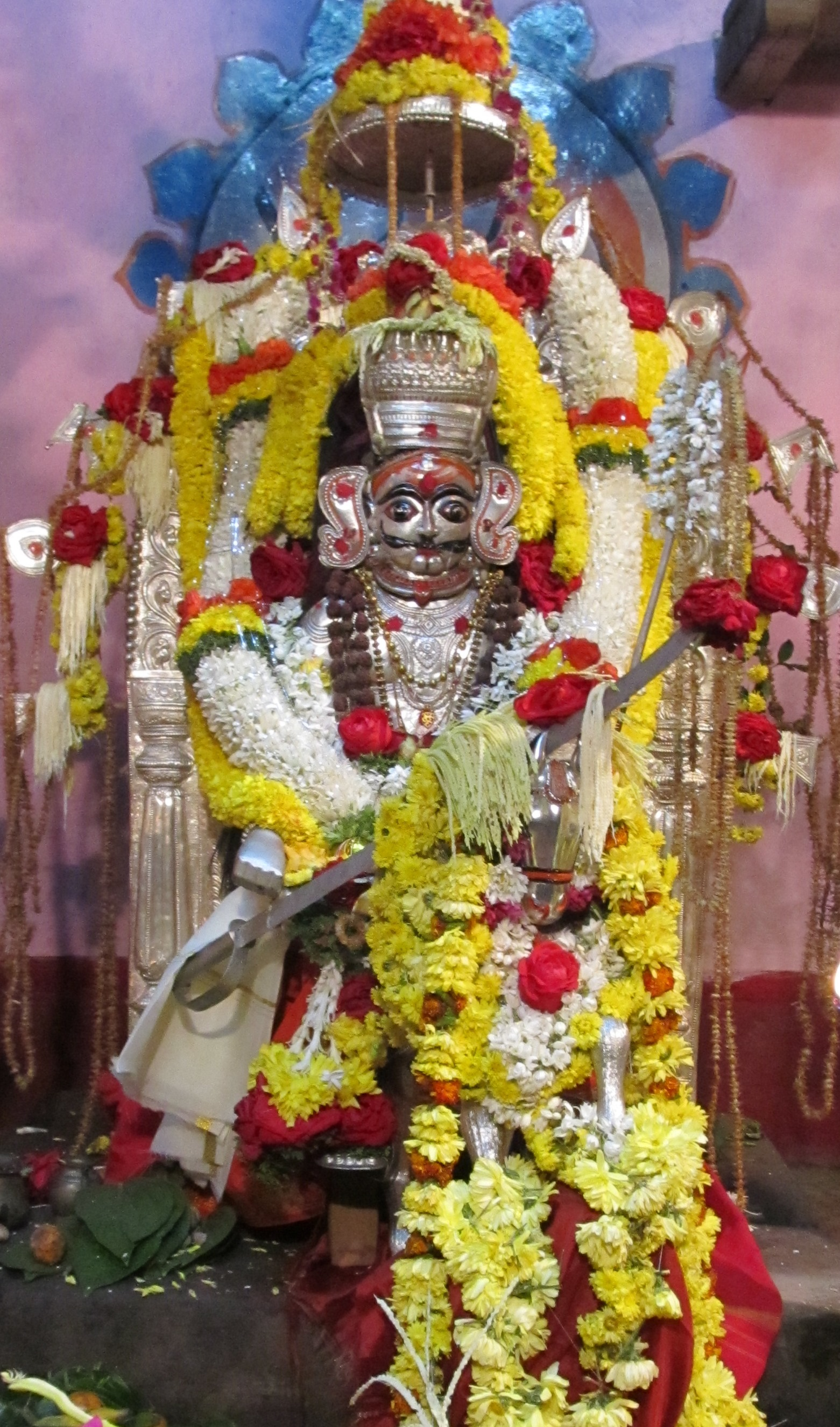 Shri Hirebeera Deva